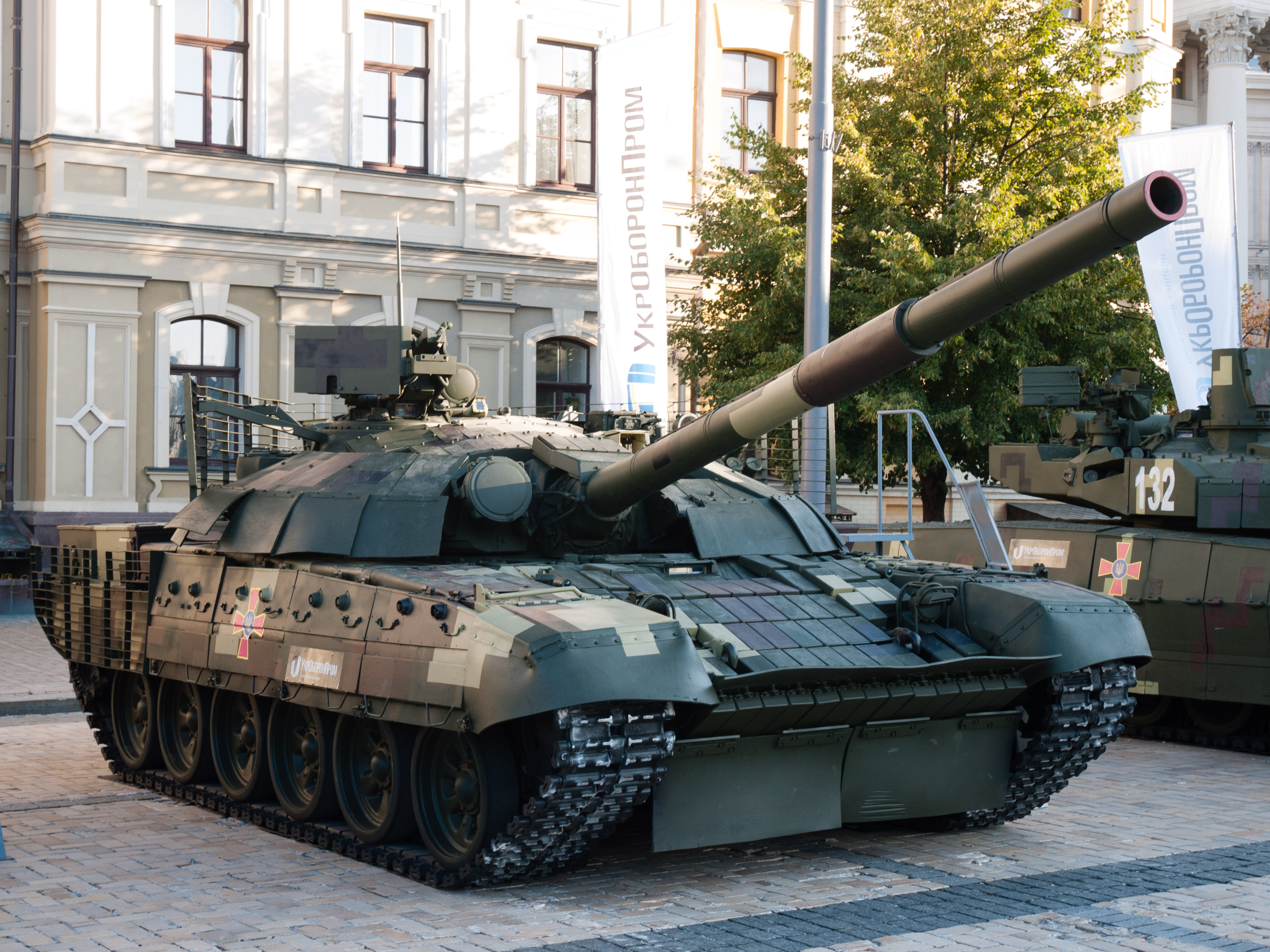 T-72AMT tank in Kyiv, Ukraine, 2018